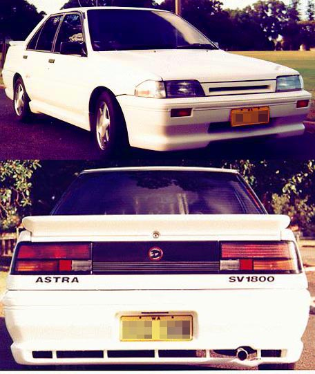 1988–1989 HSV Astra SV1800 sedan, photographed in Western Australia, Australia.